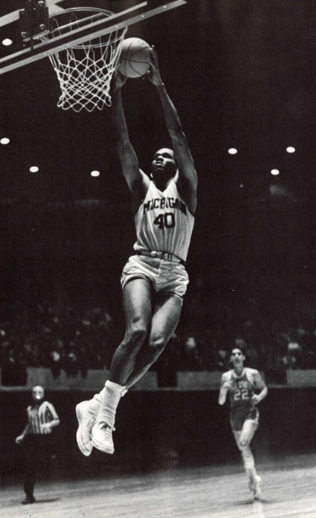 Photograph of Dennis Stewart